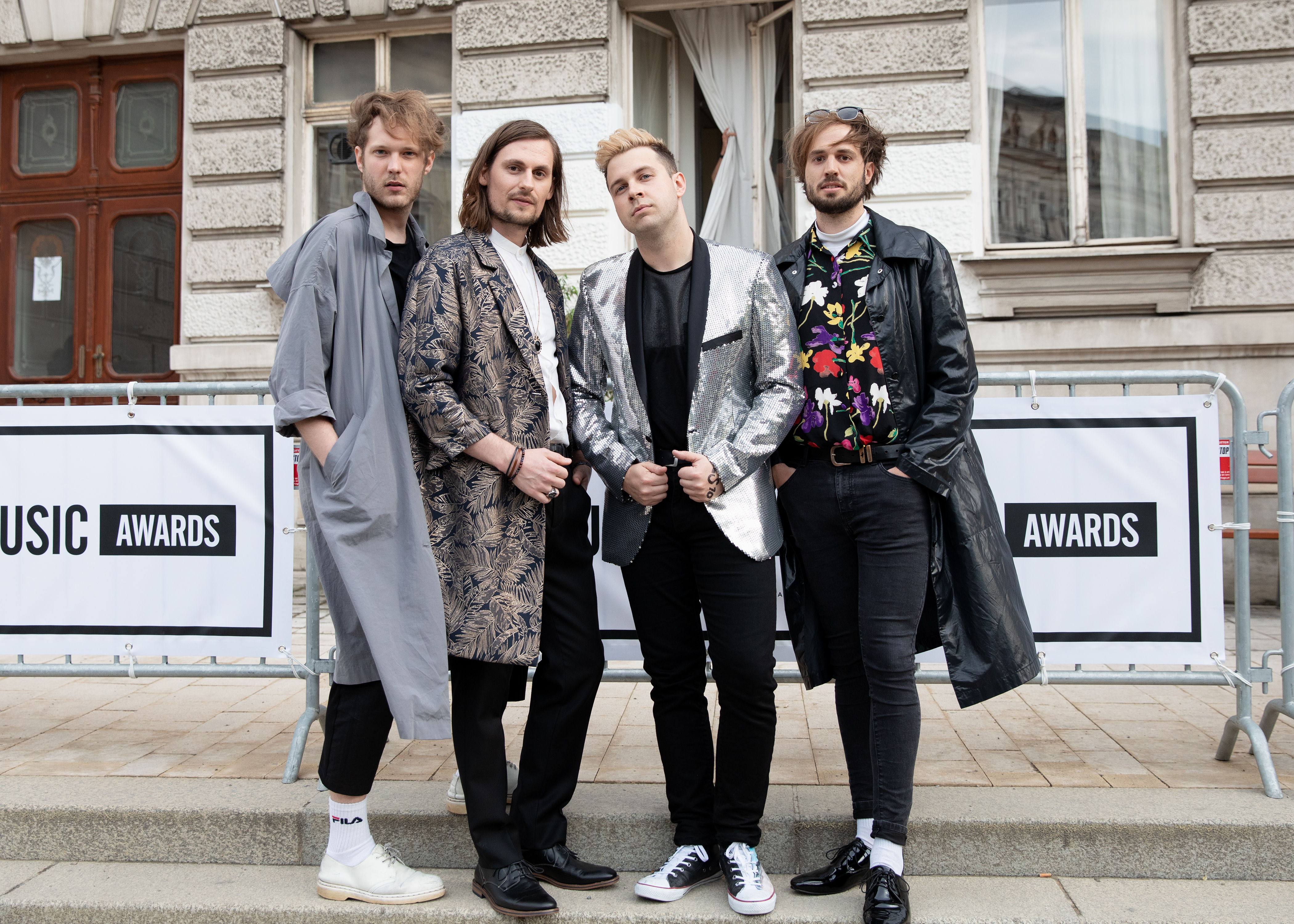 Farewell Dear Ghost at the Amadeus Austrian Music Award 2018 at Volkstheater in Vienna.